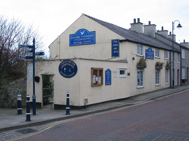 Cemaes heritage centre A view looking south across High Street towards the Heritage Centre.